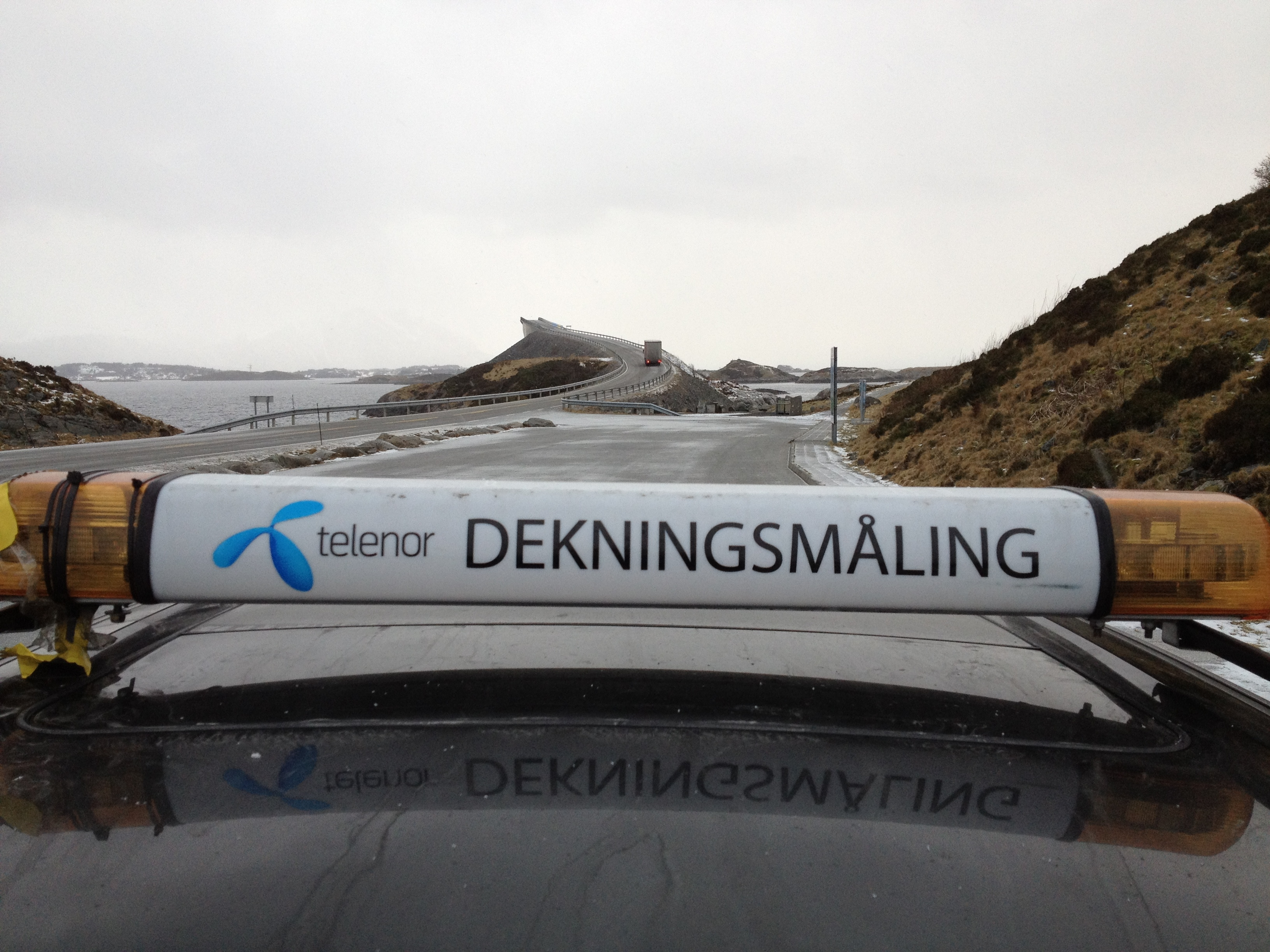 Telenor mobile coverage officer's car at "Atlanterhavsvegen" near Kristiansund, Norway. Mobile coverage measurement is done theoretically throuh map studies, and practically by patrolling the area by car.